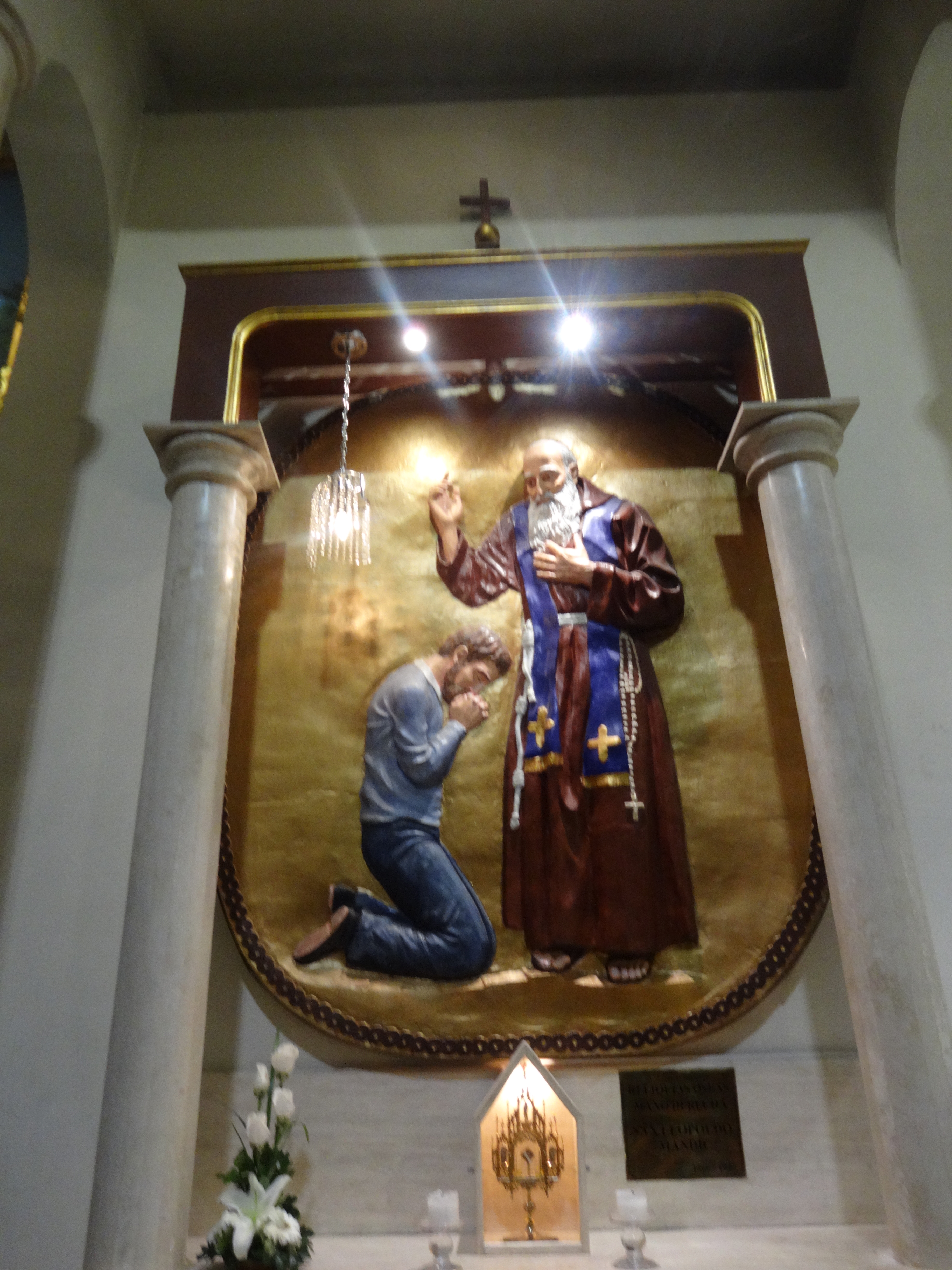 Relief of Saint Leopold Mandic in Church of San Leopoldo in San Borja District, Lima-Peru.